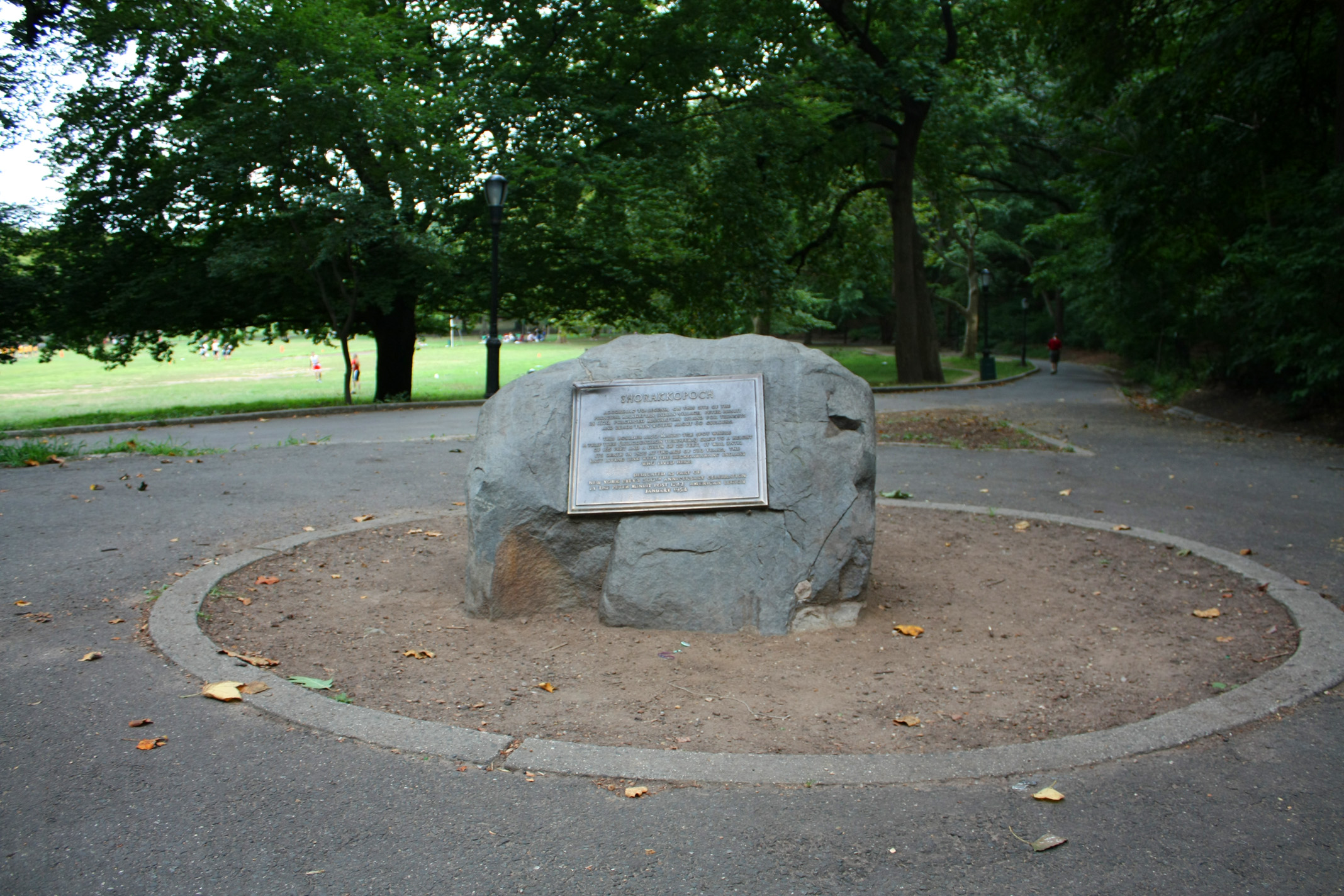 A photo of Shorakkopoch Rock in Inwood Hill Park, New York City.